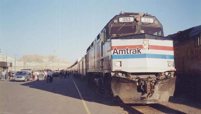 Amtrak's Pioneer stops in Green River, Wyoming on its last westbound trip in May 1997 before it was discontinued.